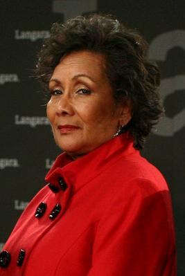 Hedy Fry